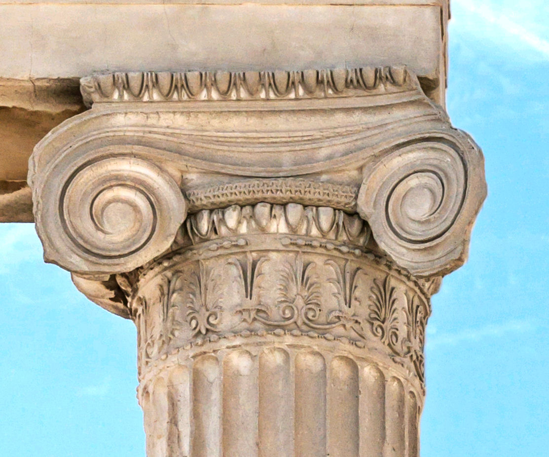 Ionic capital at the Erechtheum, Athens 5th century BCE